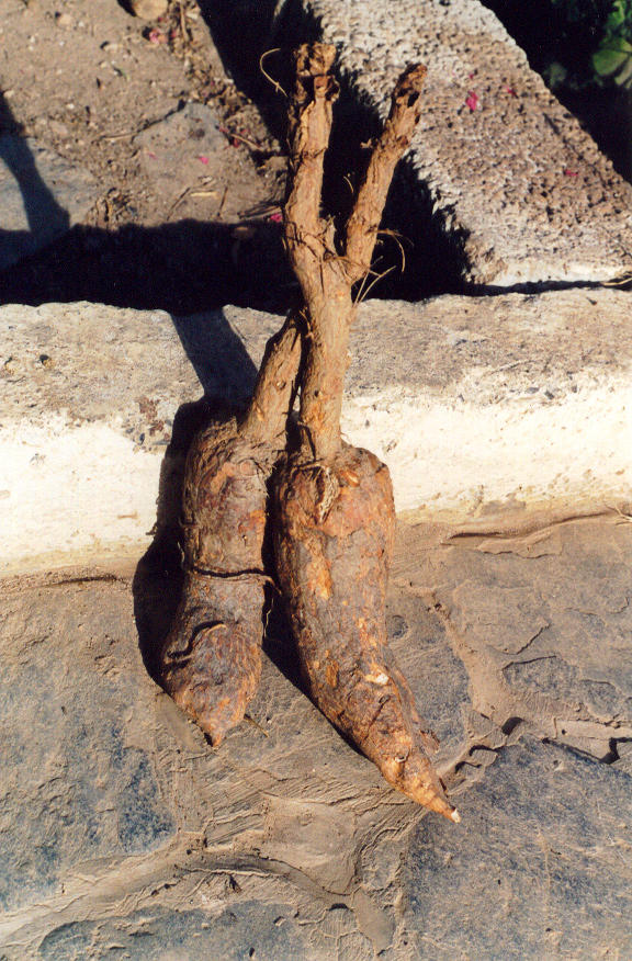 Mandrake twin roots